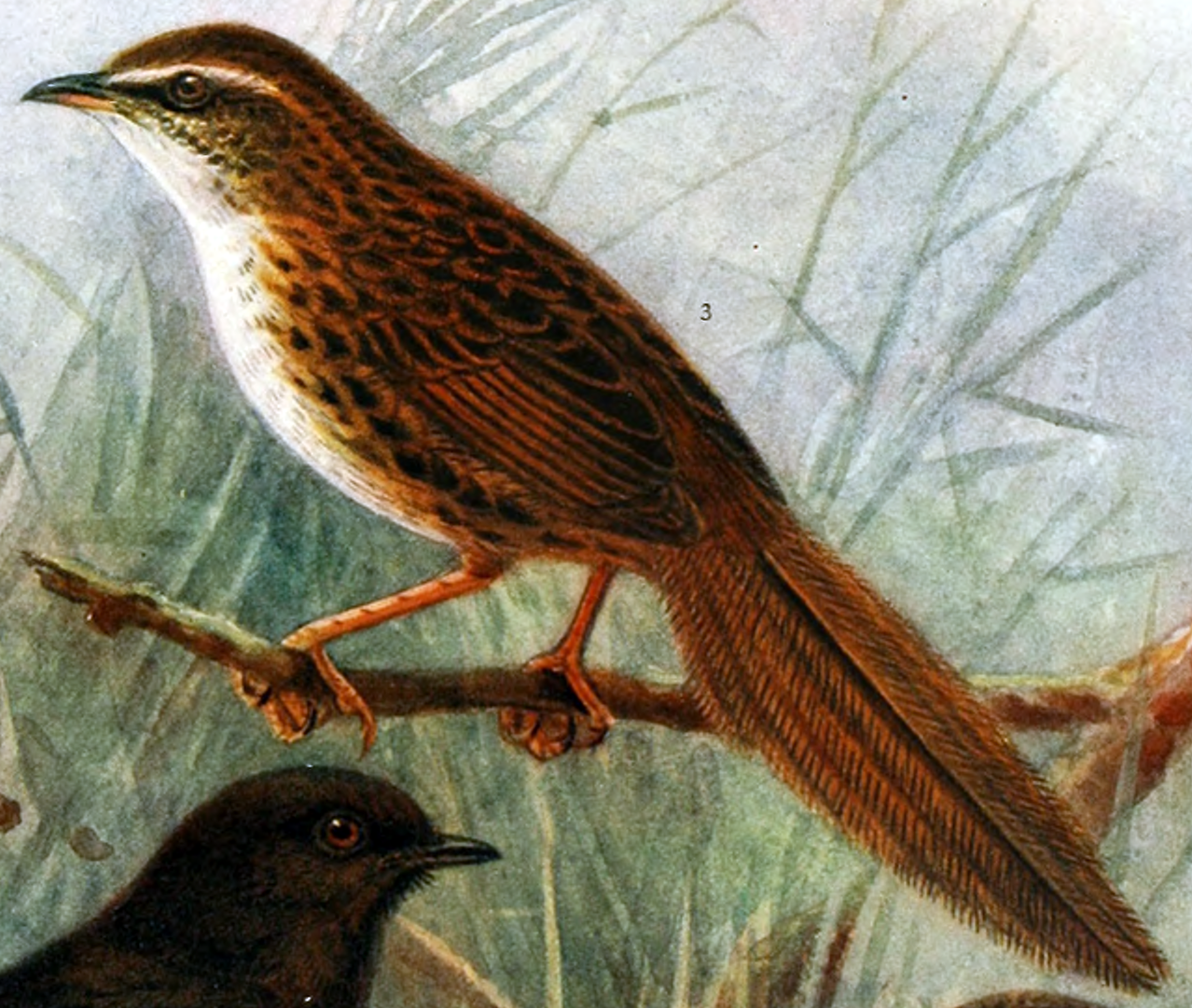 Megalurus rufescens